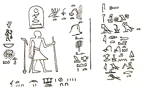 Rock inscription near Aswan showing king Merenra I receiving the submission of the lower Nubian rulers.